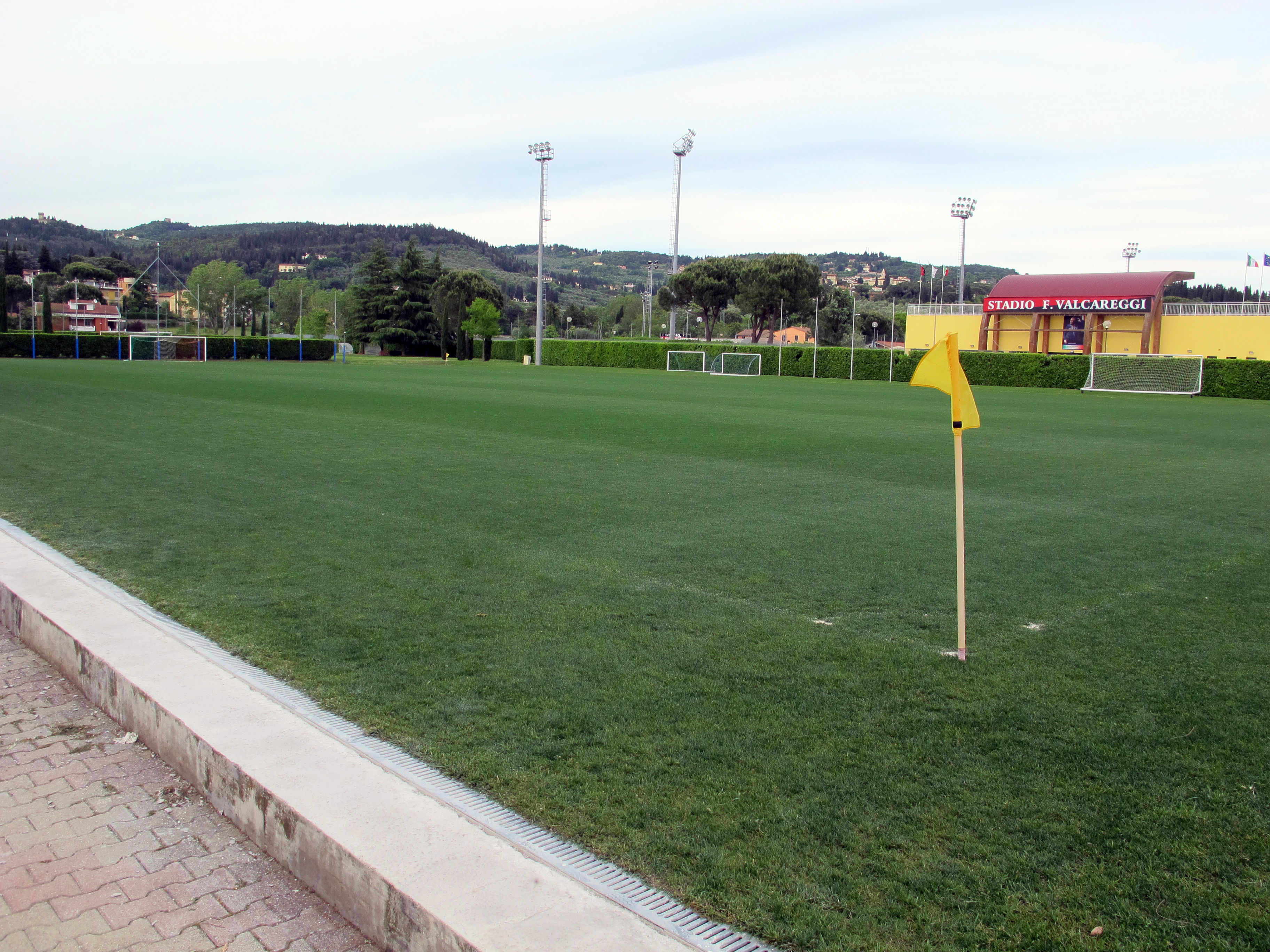 Centro FIGC (Florence)